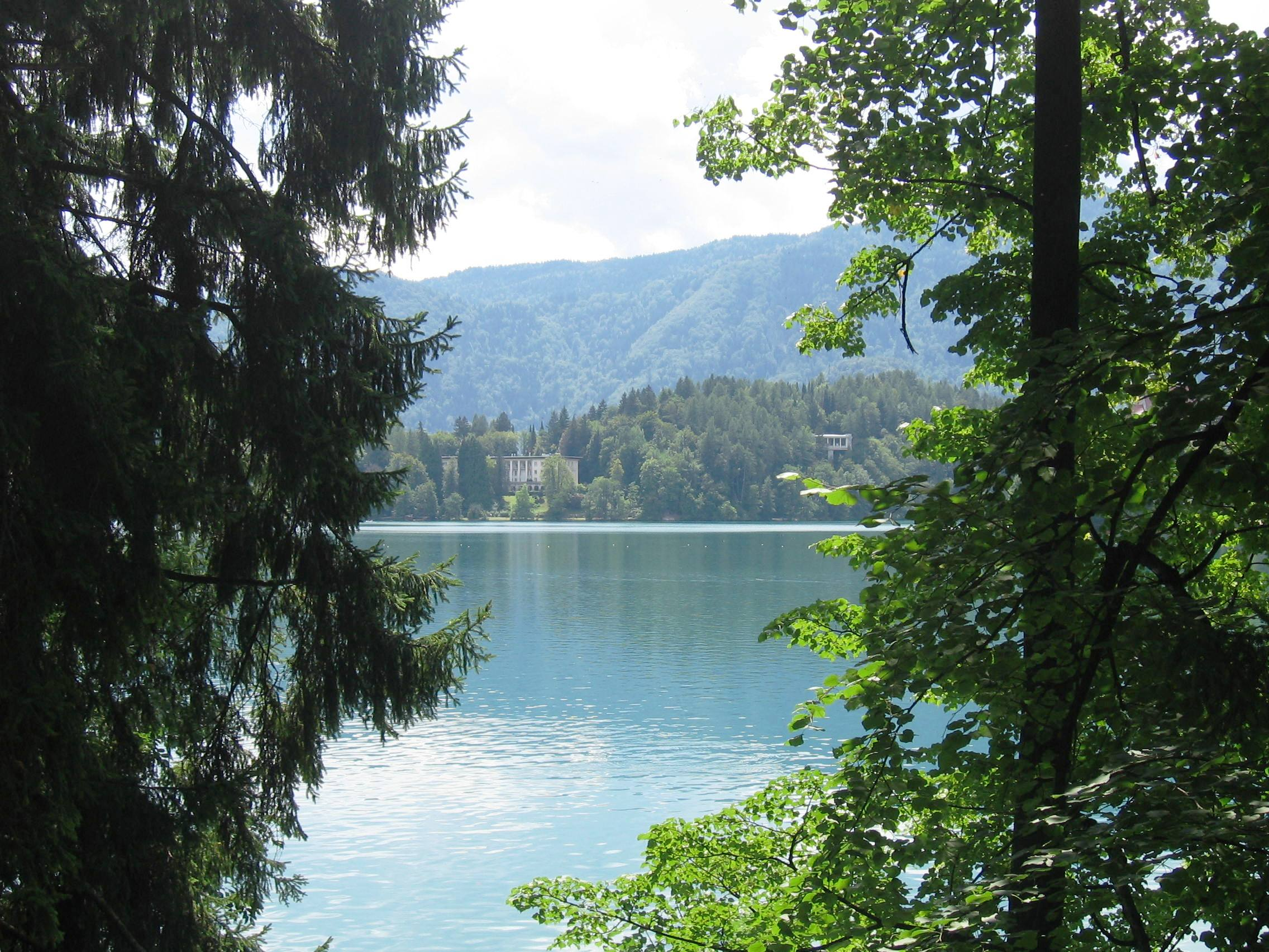 View of Villa Bled from lake, Bled, Slovenia